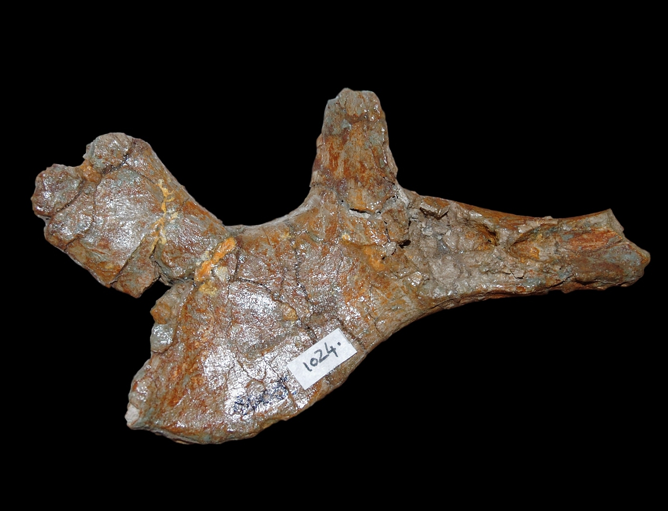 Juggle of Zalmoxes, Deva Natural History Museum.